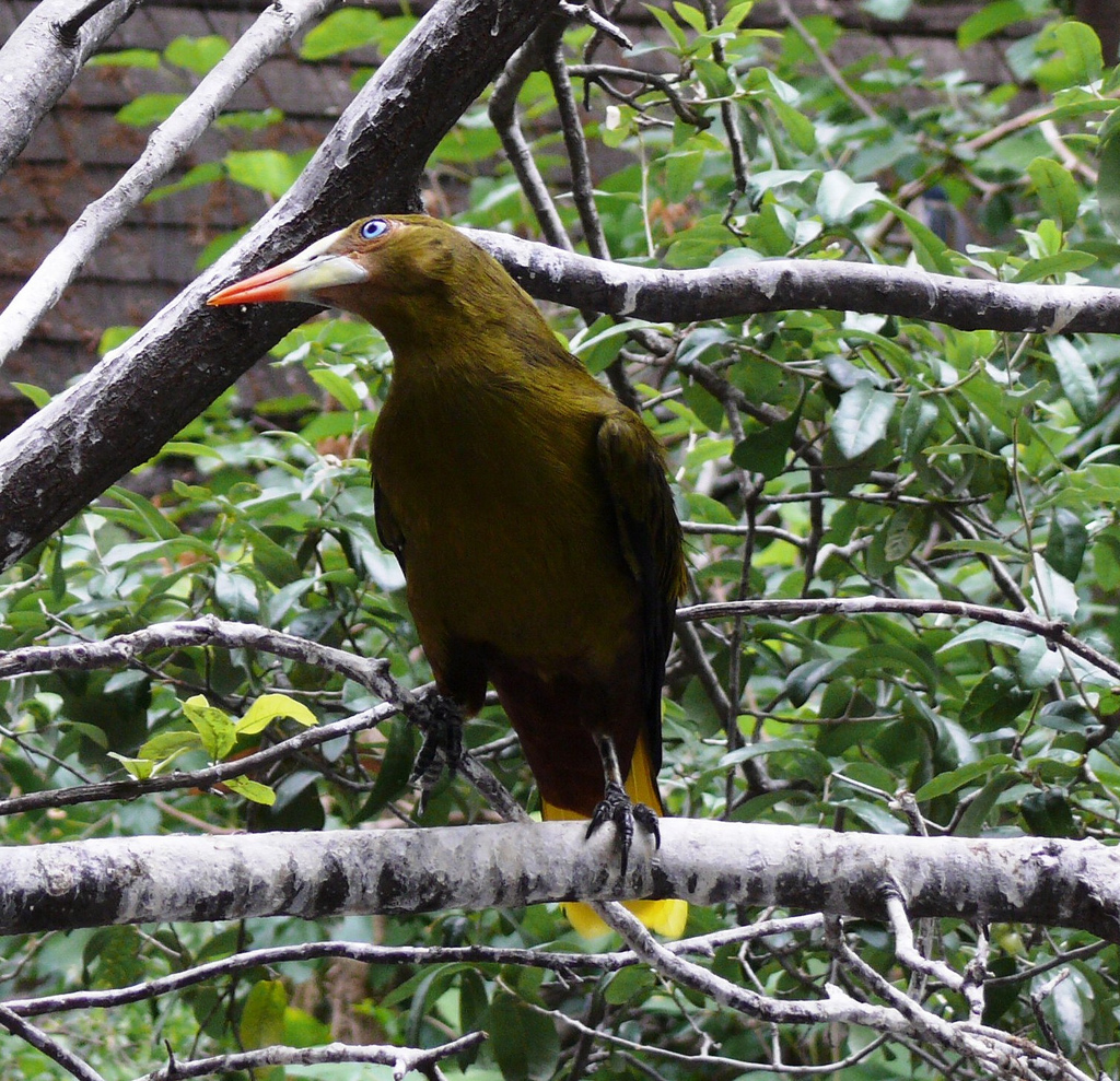 Green Oropendola at the San Antonio Zoo, San Antonio, Texas, United States.